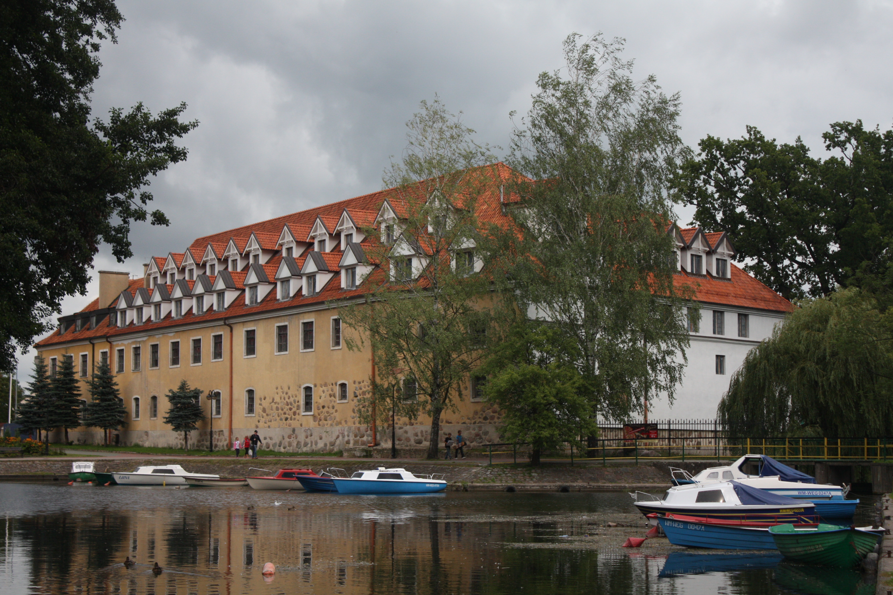 This photo of Warmian-Masurian Voivodeship was taken during Wikiexpedition 2012 set up by Wikimedia Polska Association. You can see all photographs in category Wikiekspedycja 2012. The making of this document was supported by Wikimedia Polska.